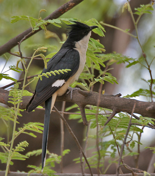 Pied Cuckoo Clamator jacobinus in Hyderabad , India.